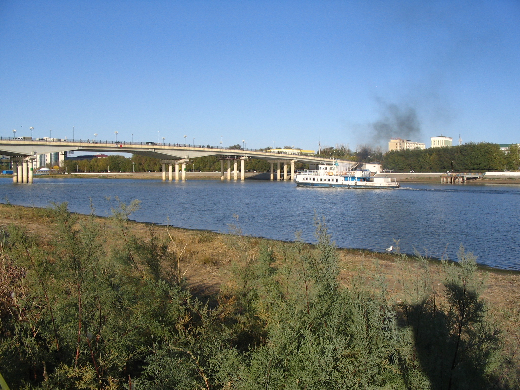 Oural river - Atyrau - Kazakhstan